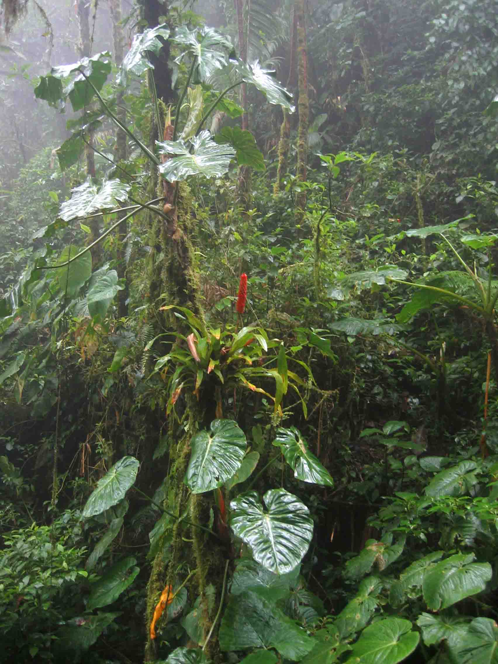 Photograph by Dirk van der Made (User:DirkvdM - for more photos see user:DirkvdM/Photographs). A cloud forest near Santa Fe, PanamÃ¡, April 2004.